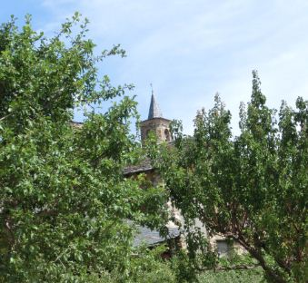 View of the village of Sorre (Sort, Pallars Sobirà, Catalonia) behind the trees, where the bell tower of Sant Esteve's church can be seen.